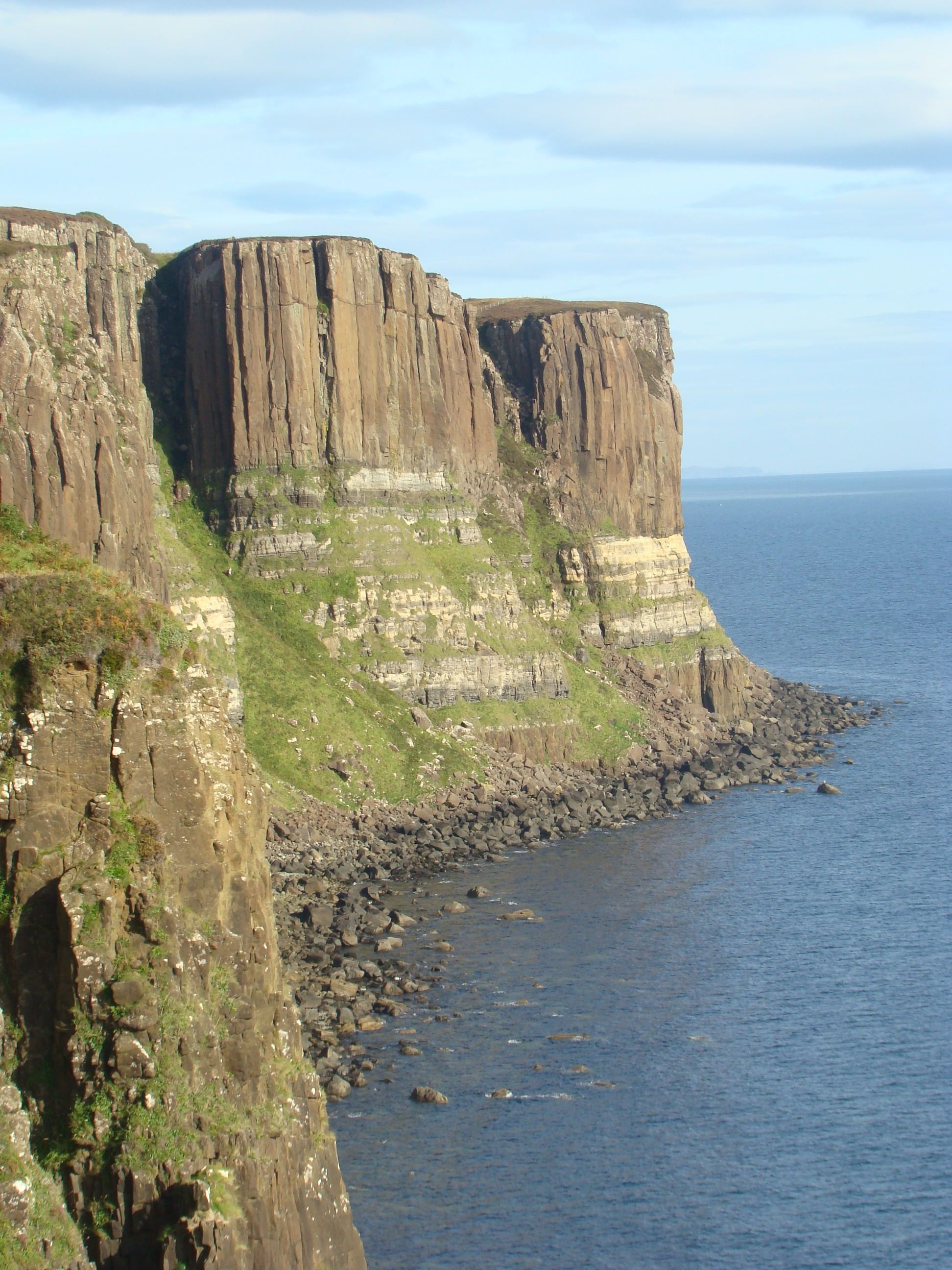 Kilt rock on Isle of Skye.